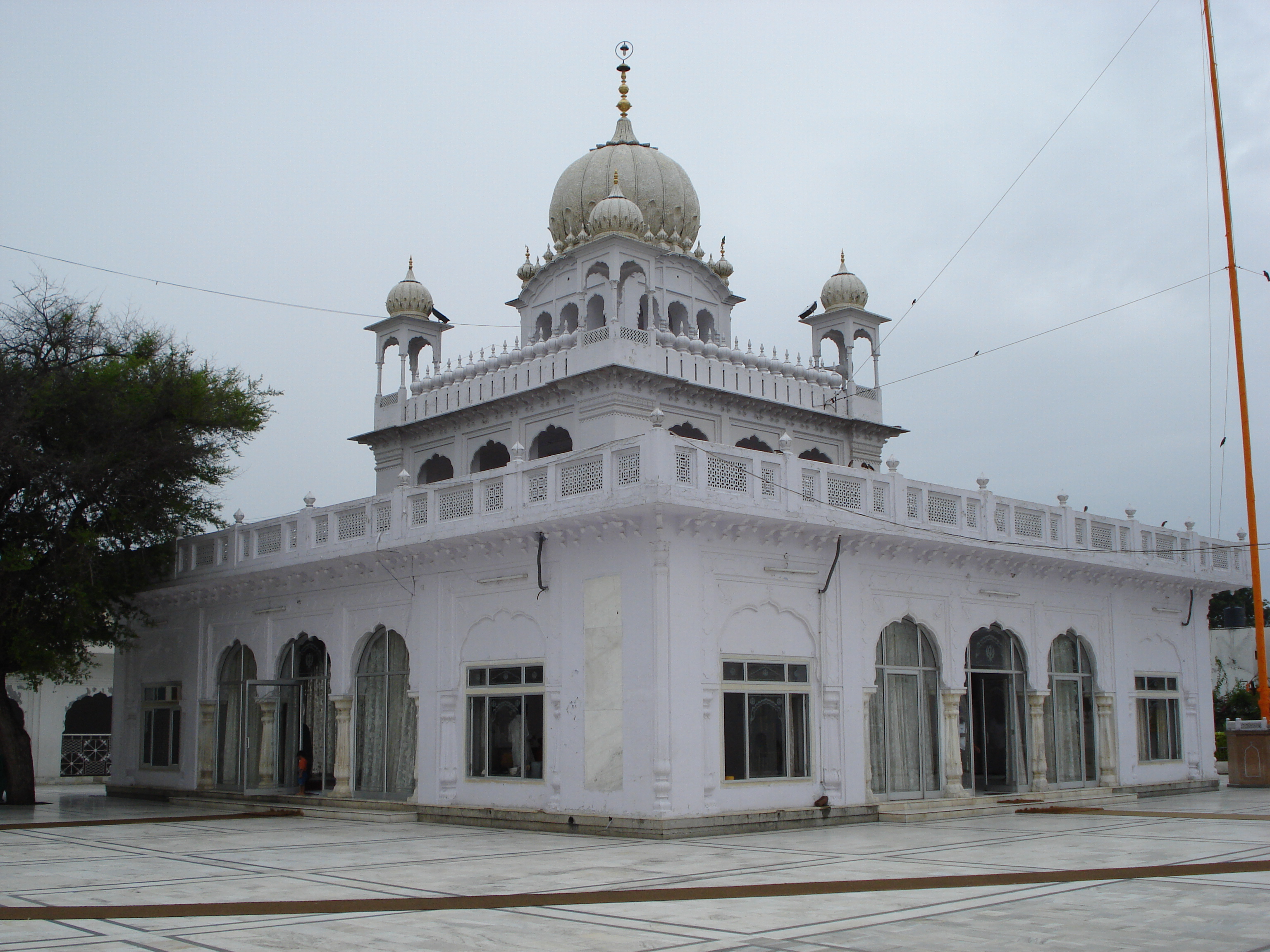 author : Mandeep Singh